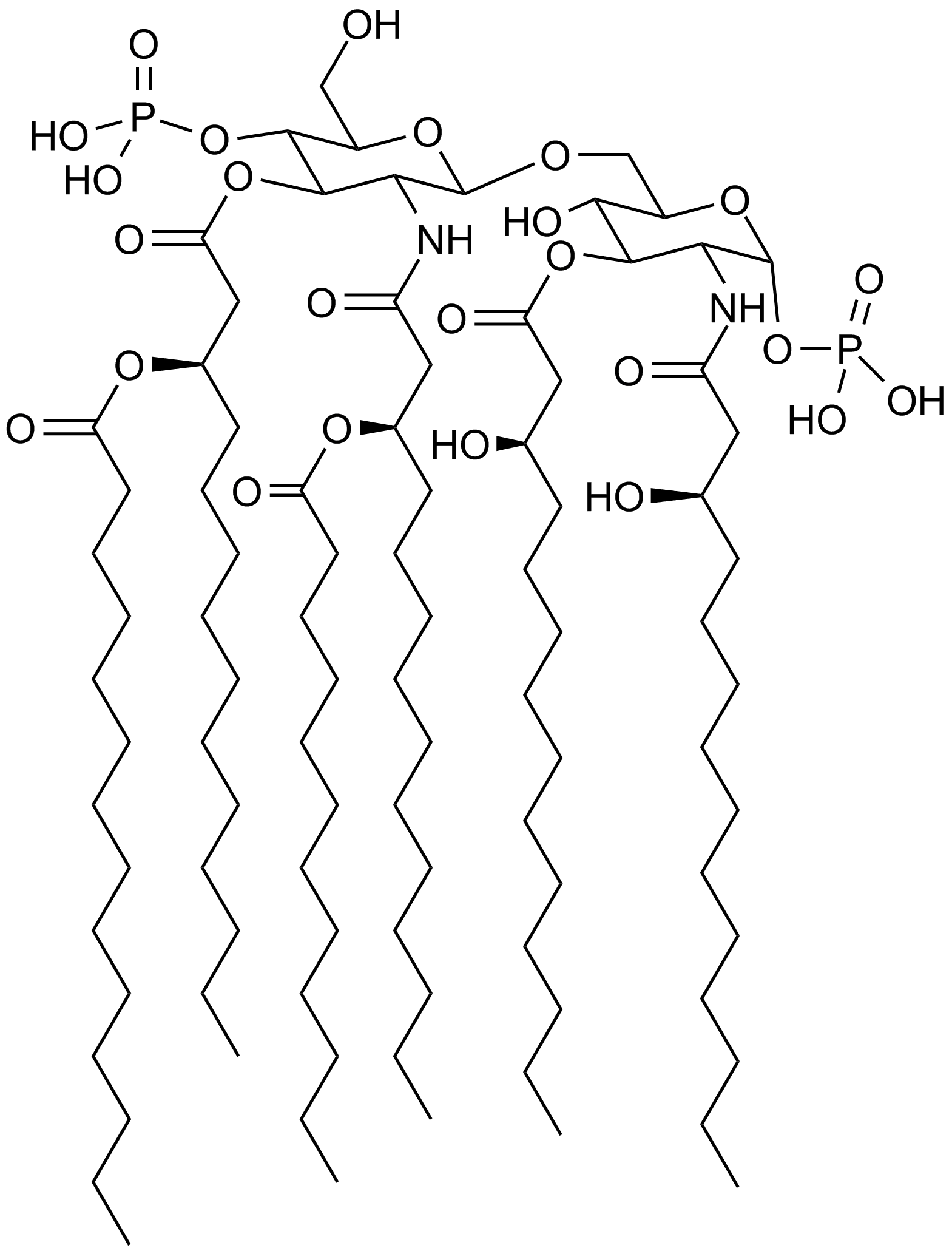 Chemical structure of the saccharolipid lipid A as found in E. Coli. Based on descriptions in: Raetz, Christian R. H.; Guan, Ziqiang; Ingram, Brian O.; Six, David A.; Song, Feng; Wang, Xiaoyuan; Zhao, Jinshi. Discovery of new biosynthetic pathways: the lipid A story. Journal of Lipid Research (2009) S103-S108